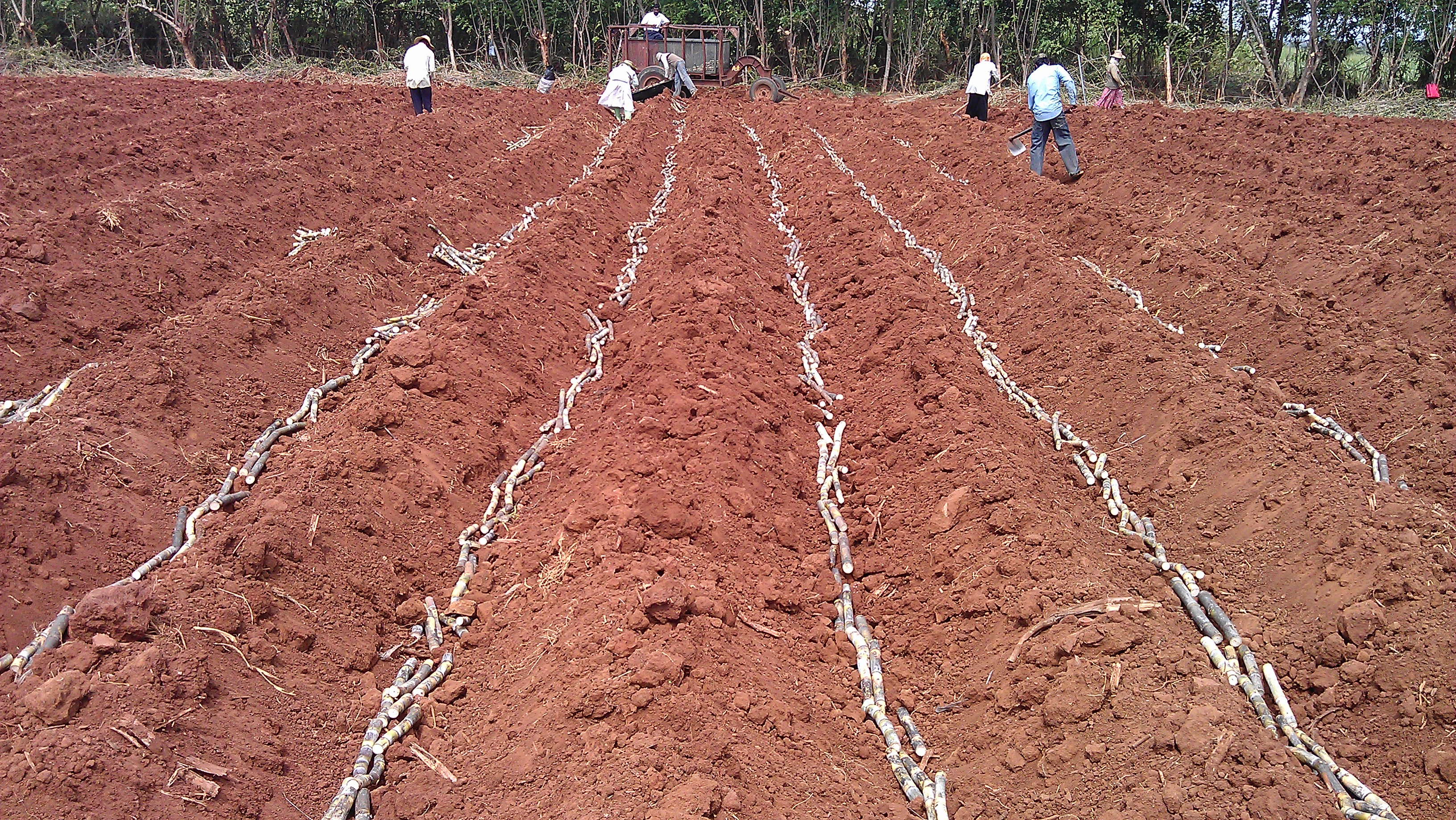 Using Ridge and furrow method for planting hot water treated sugarcane setts in sugarcane plantation in Sevanagala main nursery.